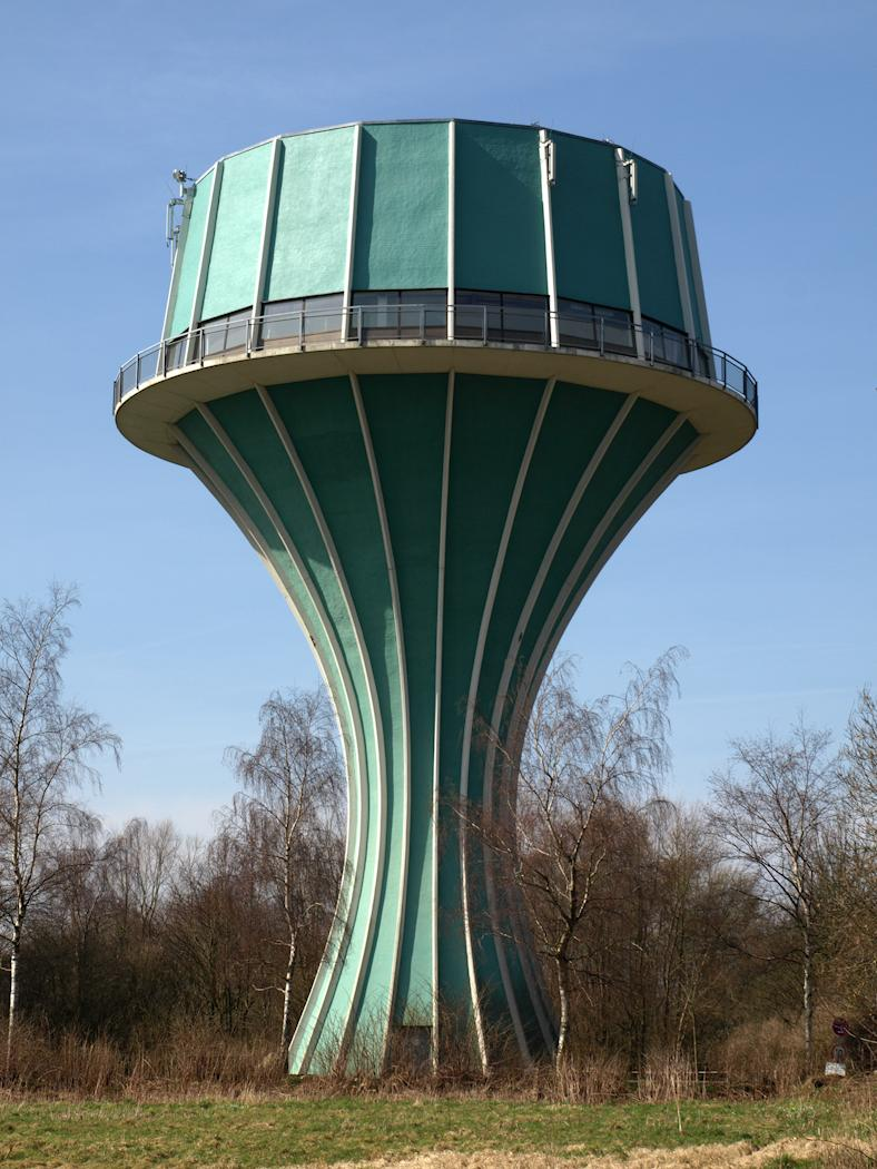 water tower Flensburg-Mürwik (Germany), photo 2011